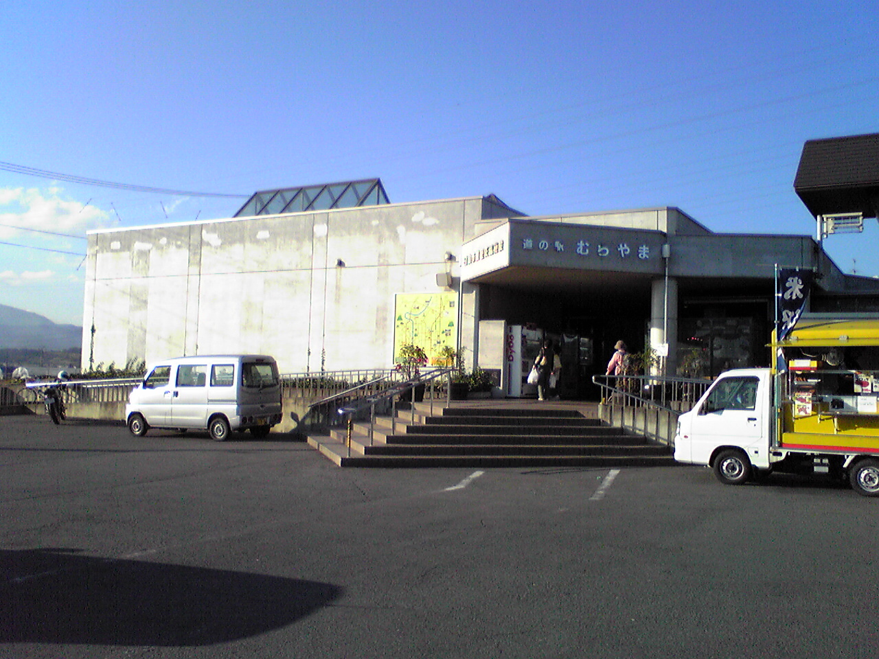 Entrance of Michinoeki Murayama in Murayama City, Yamagata Prefecture, Japan